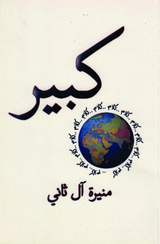 klam kbeer book